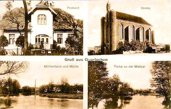 Quartschen in year 1926